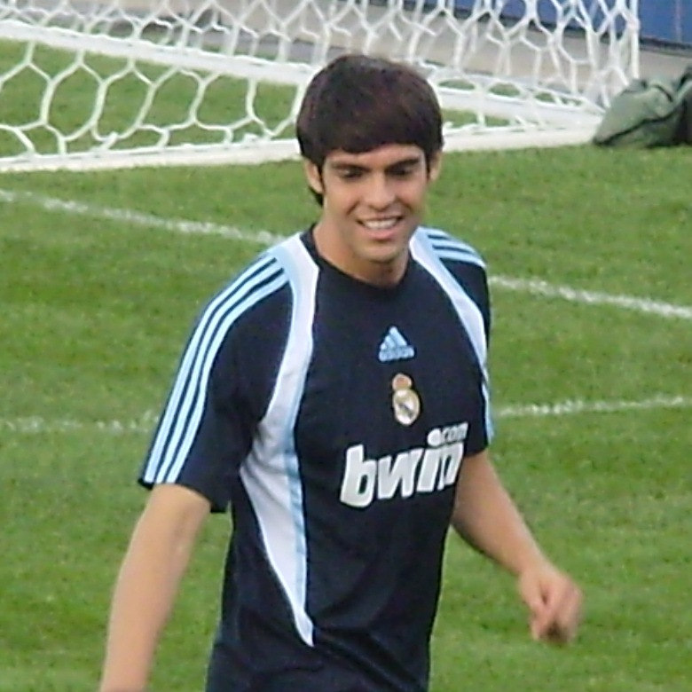 Kaká with Real Madrid in Toronto, practice